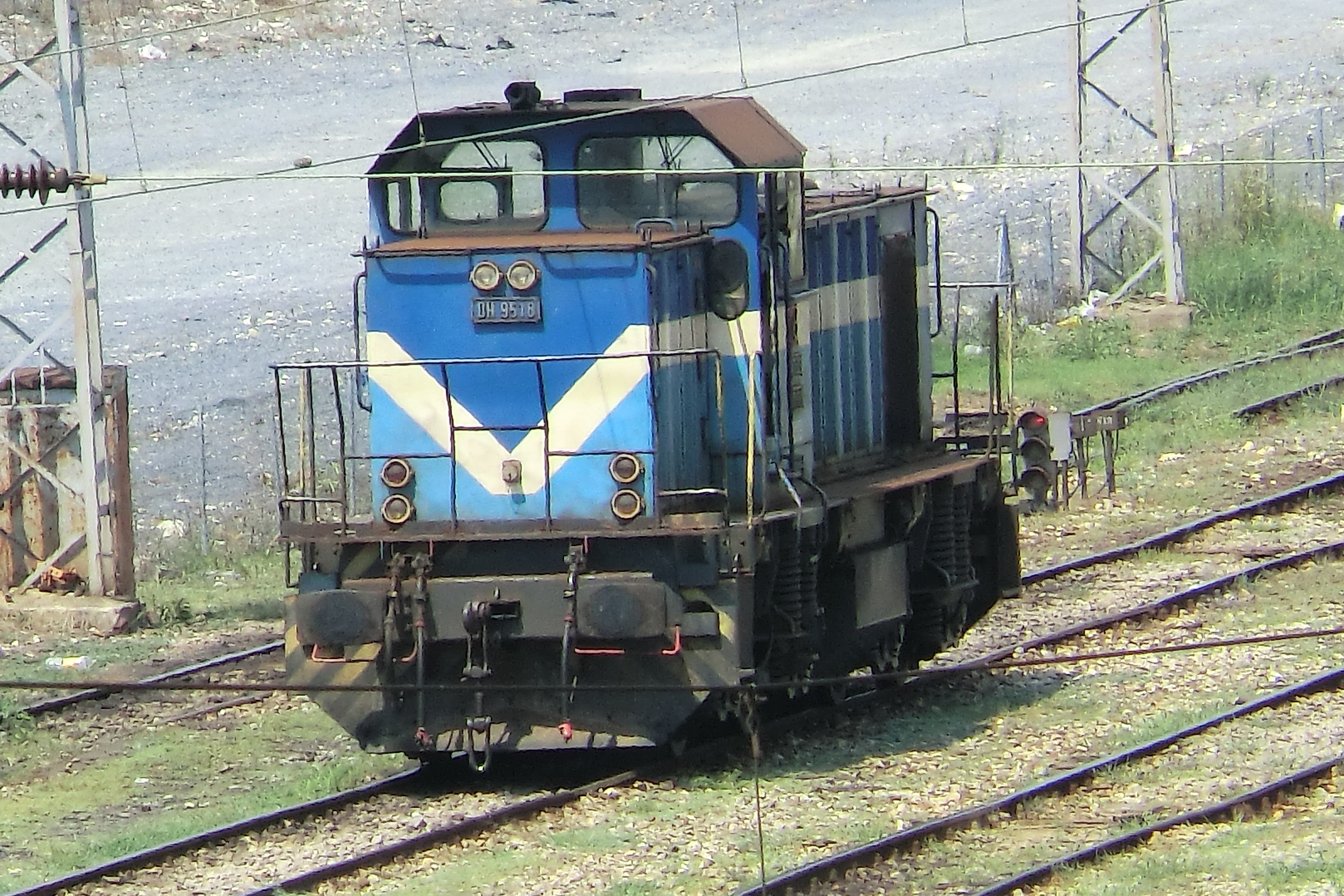 Shunter TCDD loco in Halkali